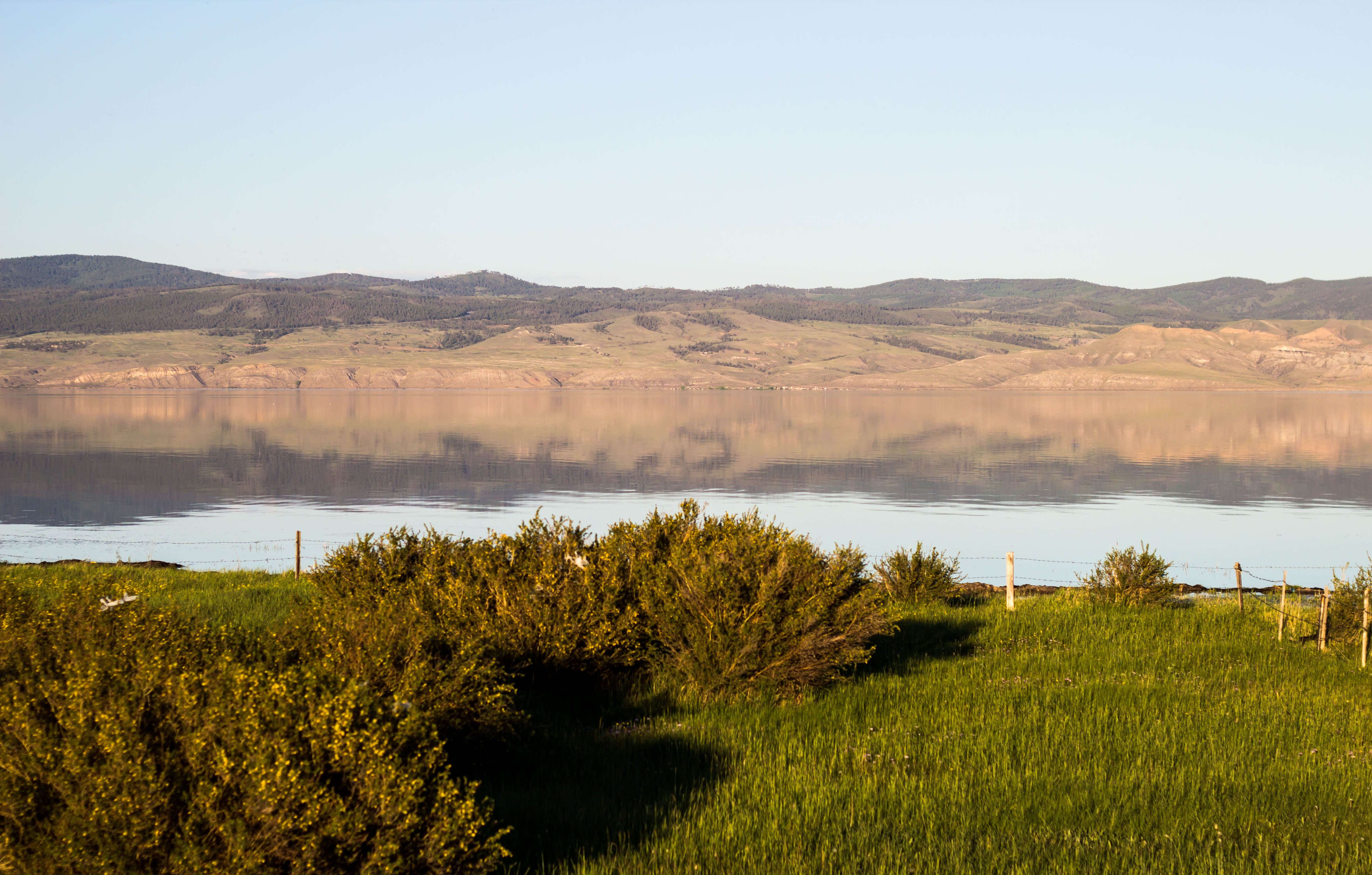 Lake Gusinoye